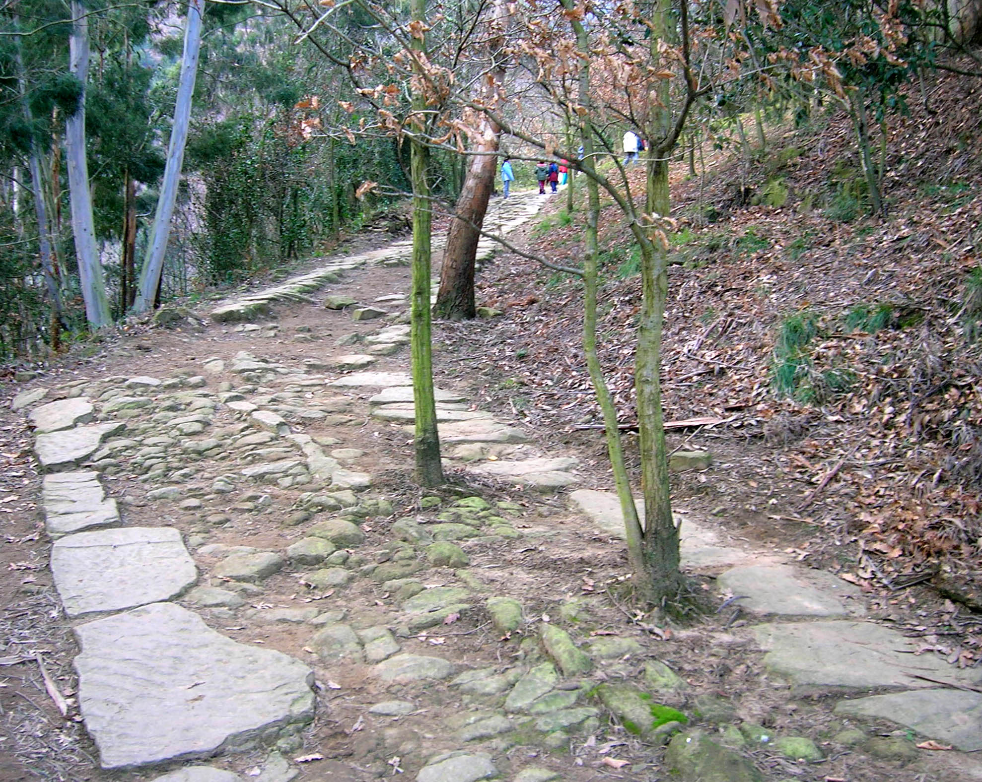 Young oak growing in the middle-age causeway between Las Delicias-Urgozo and St Agatha's hermit, in Barakaldo.